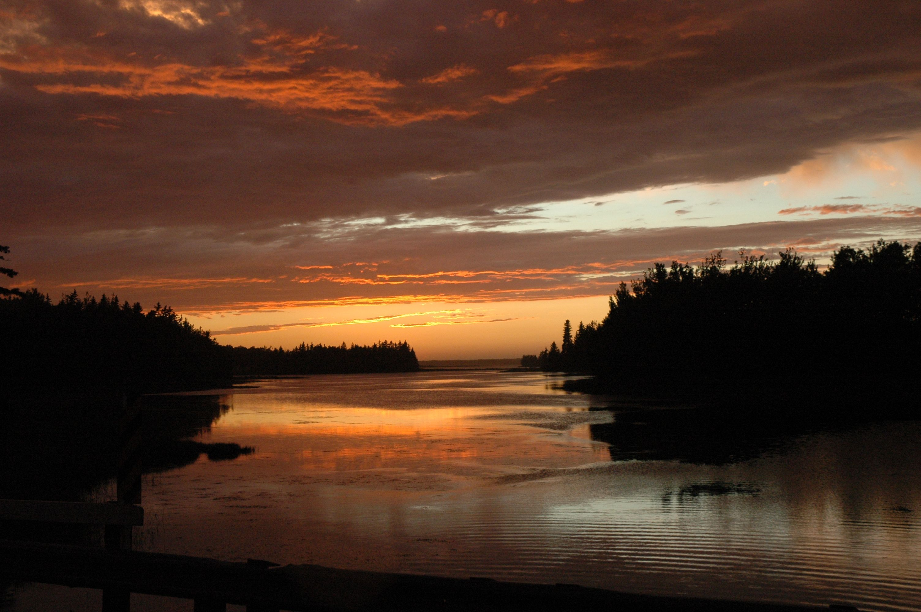 Looking downriver northwest from the junction of Rafferty Road and Canadian Road.